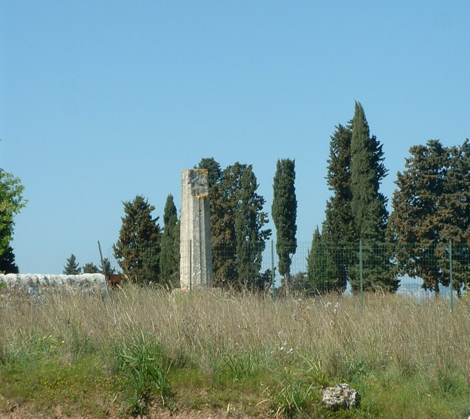 Syracuse, Italy, Temple of Olympian Zeus.